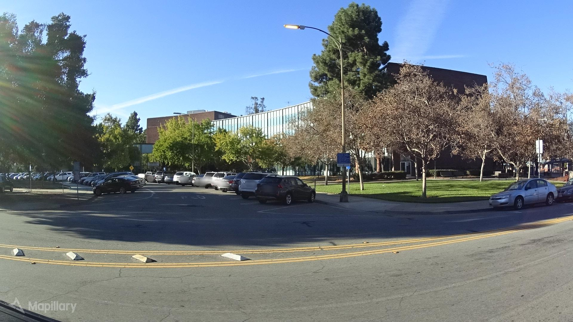 The former San Jose City Hall in the Civic Center complex at Mission and North First streets in San Jose, California, United States.